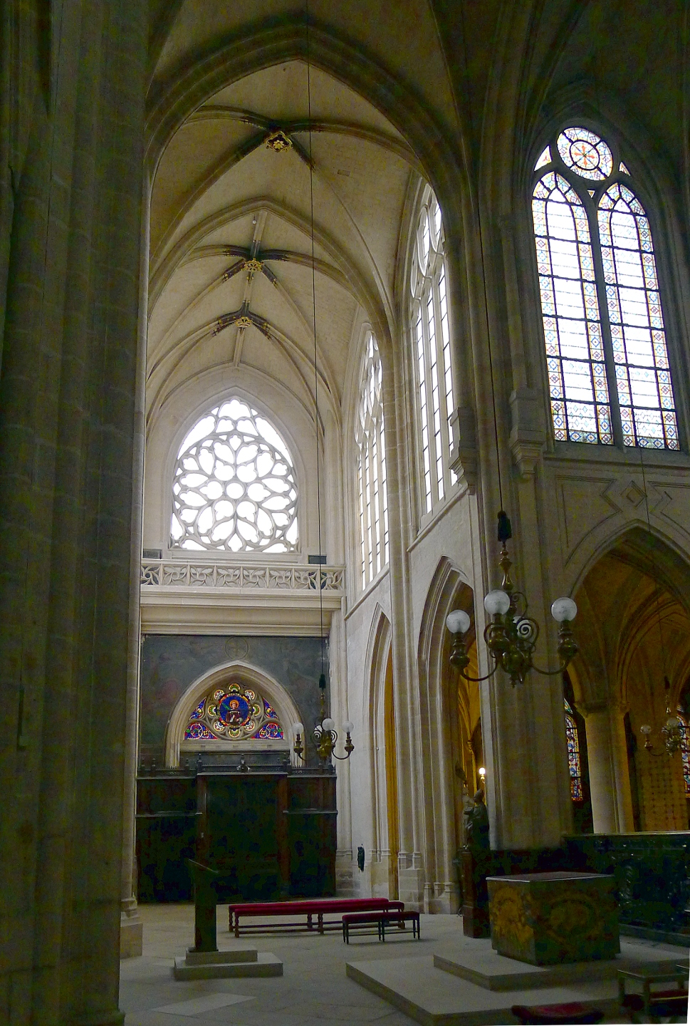 Saint-Germain l'Auxerrois church - Paris